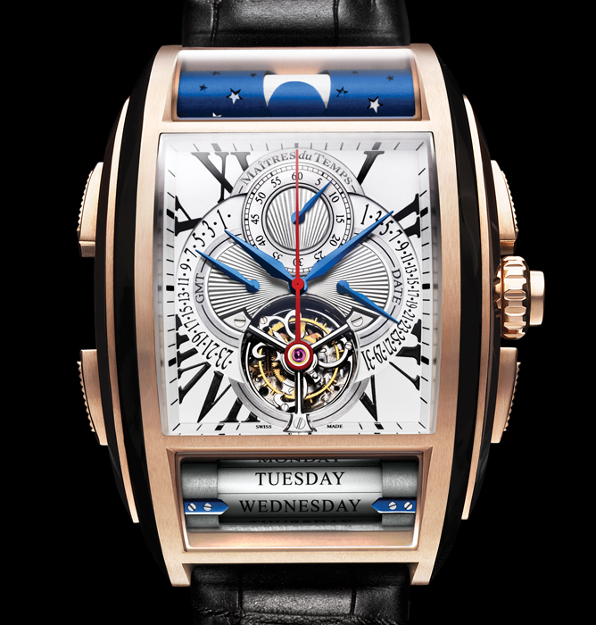 Dial of the Chapter One form watch by Maîtres du Temps